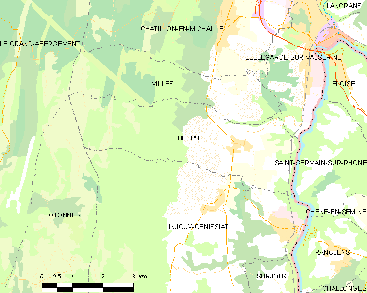 Map of French commune: Billiat Map commune FR insee code 01044.png